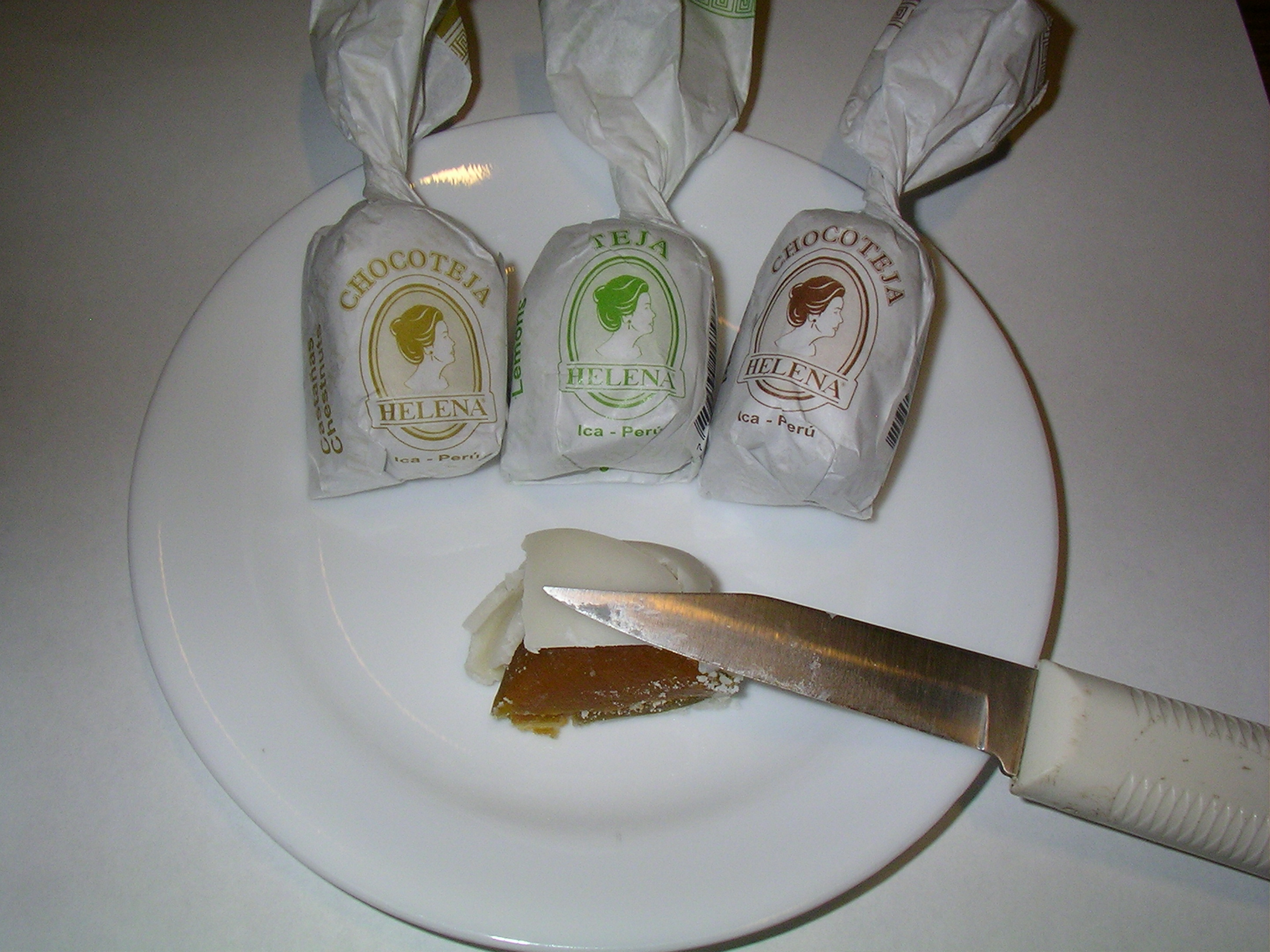 Three unopened Helena Chocolatier tejas and one cut in half. Photograph taken by me.